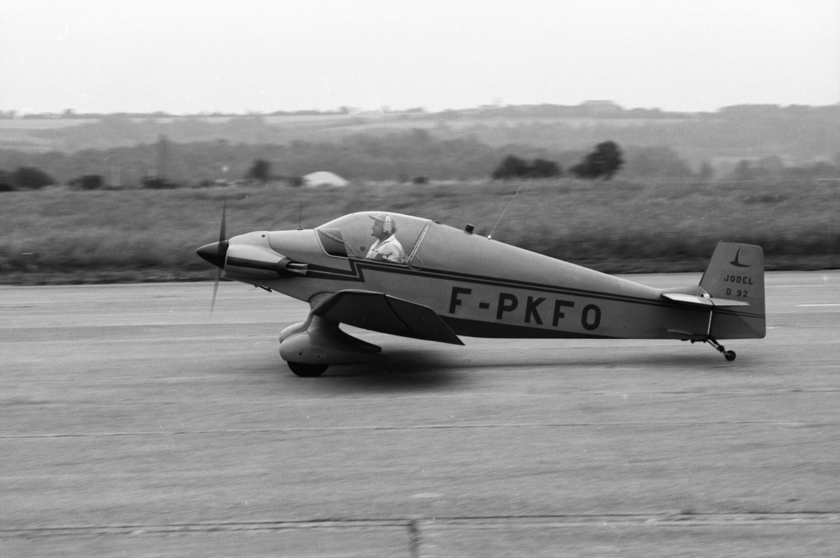 Jodel D 92, photo taken at R.S.A European rally, Brienne-Le-Chateau 1984